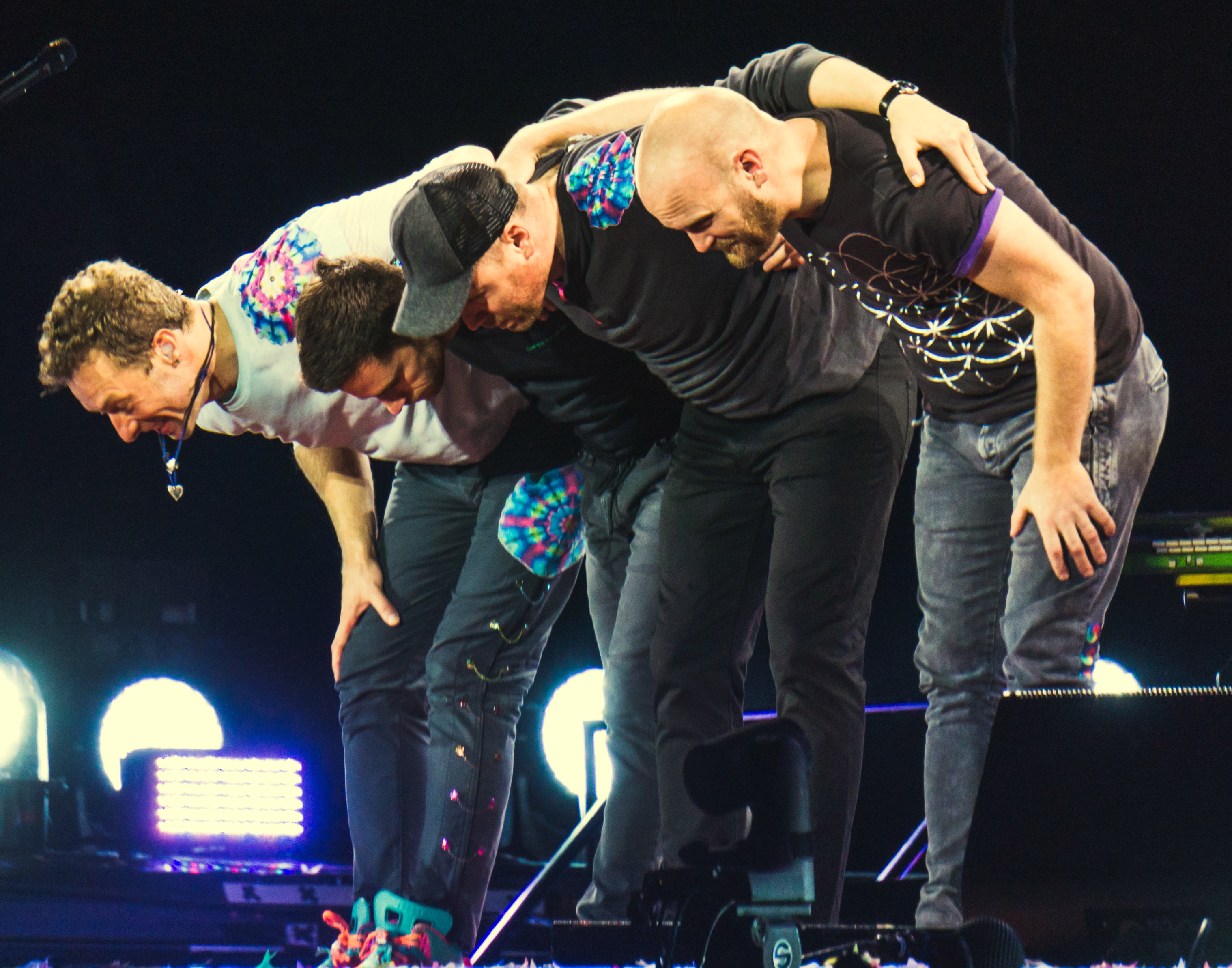 The Rose Bowl Stadium, Pasadena, California. Friday 6th October 2017.